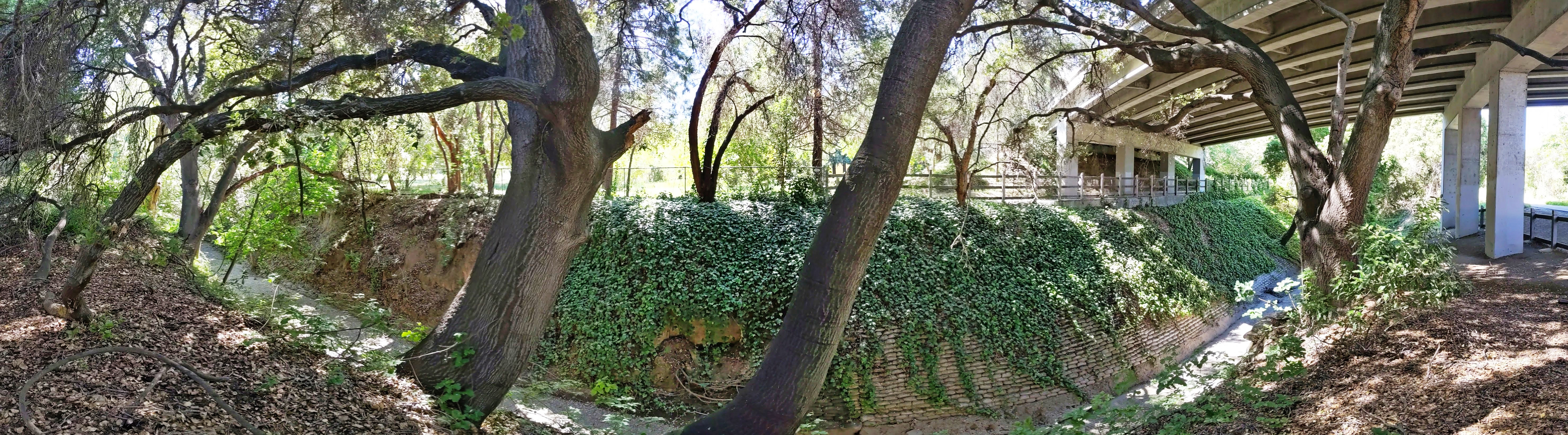 Stevens Creek from Stevens Creek Trail, Moutain View, California, just upstream of where the creek and trail run under the Dana Street overpass